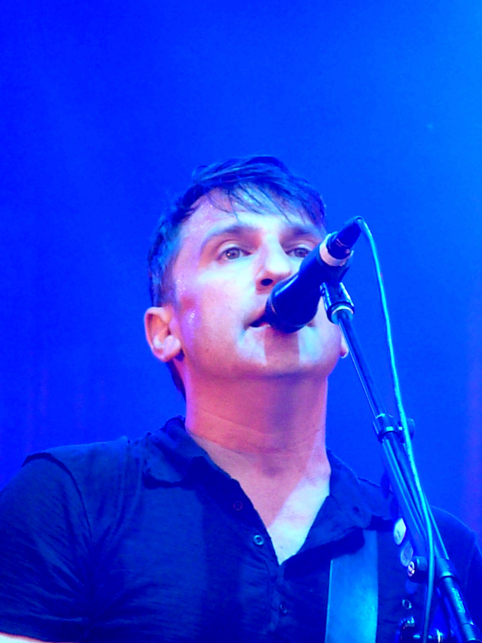 Greg Dulli, the singer of The Afghan Whigs